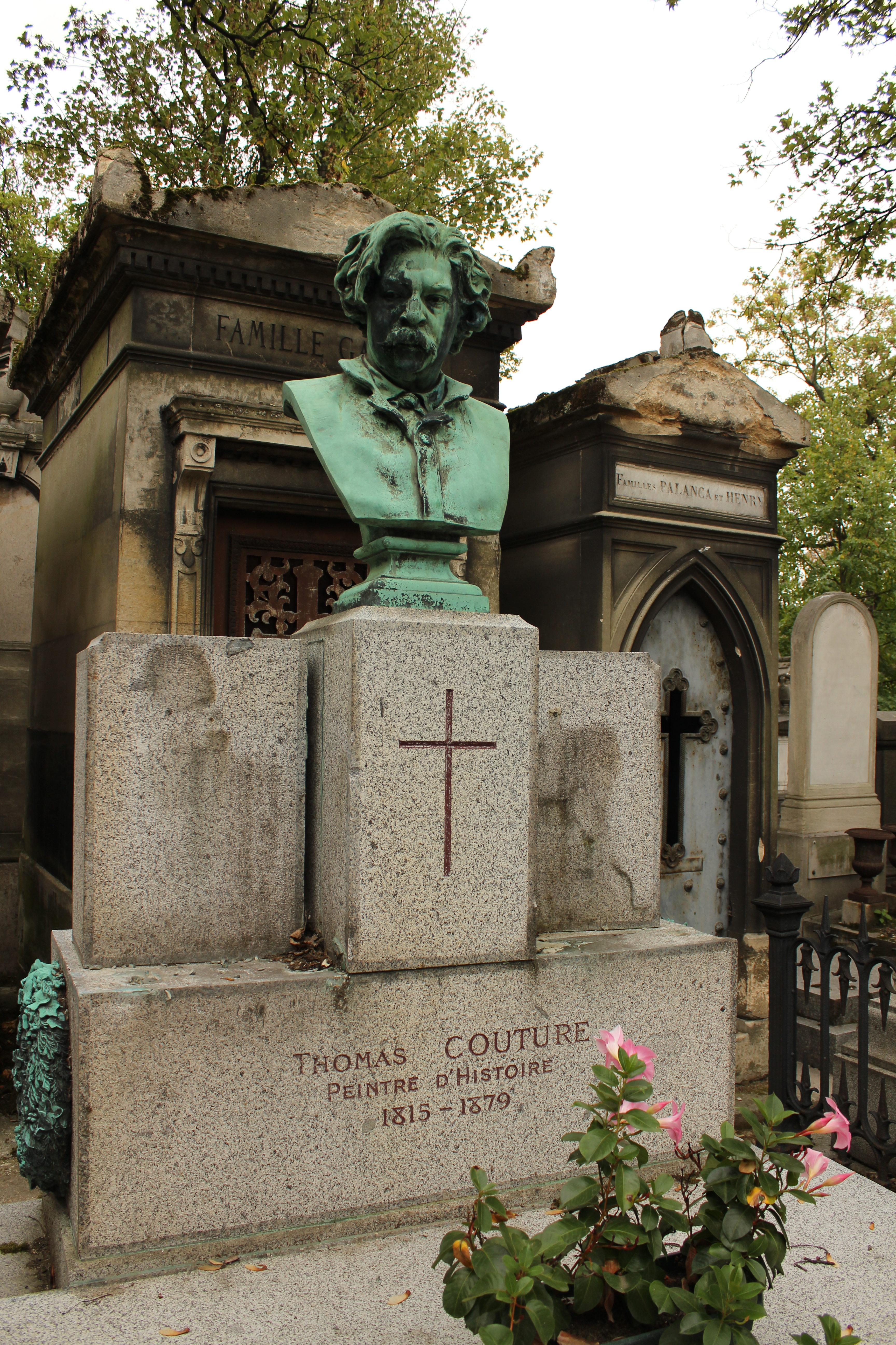 Thomas Couture's tombstone in Père Lachaise Cemetery, in Paris.